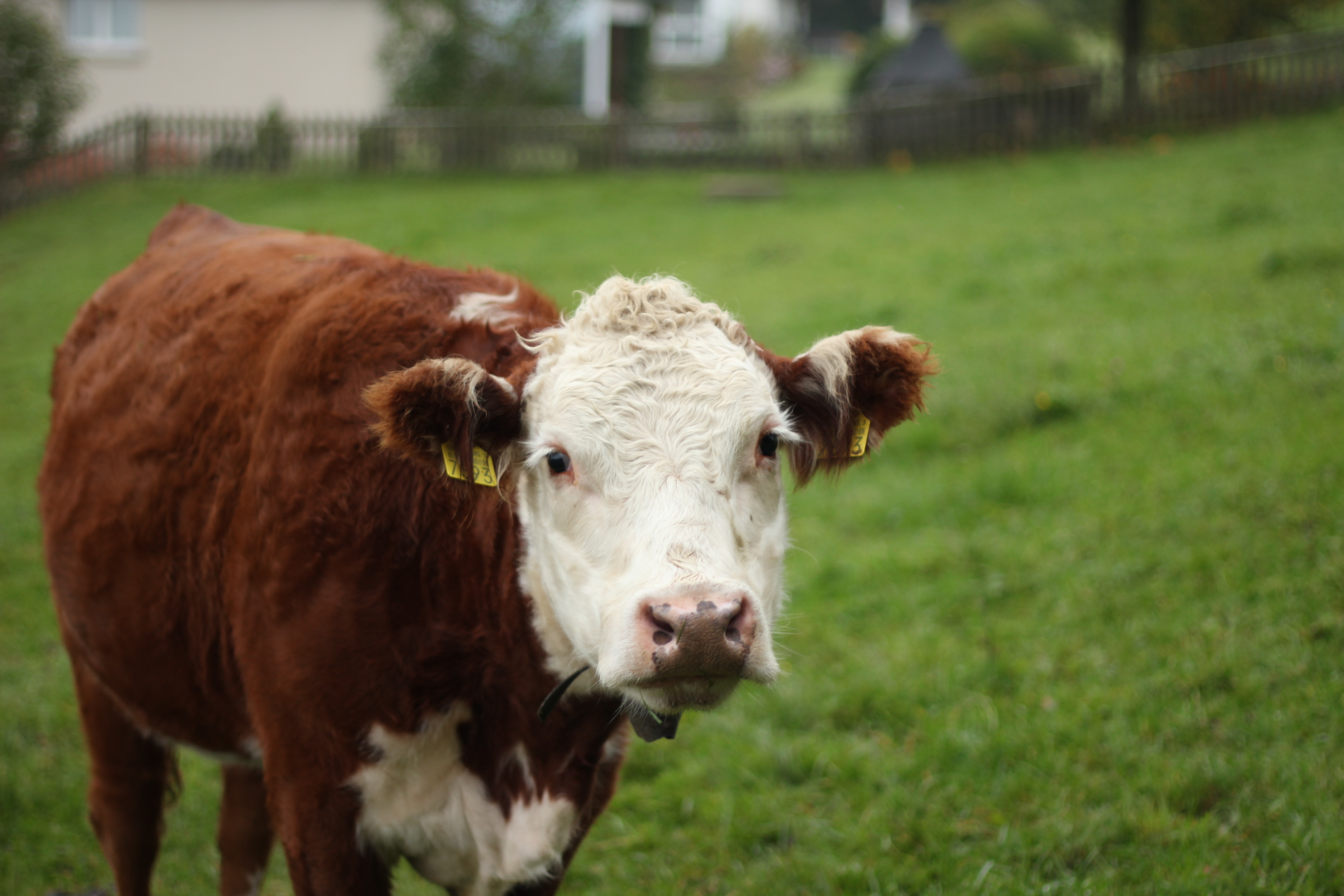 A brown cow with a white head.